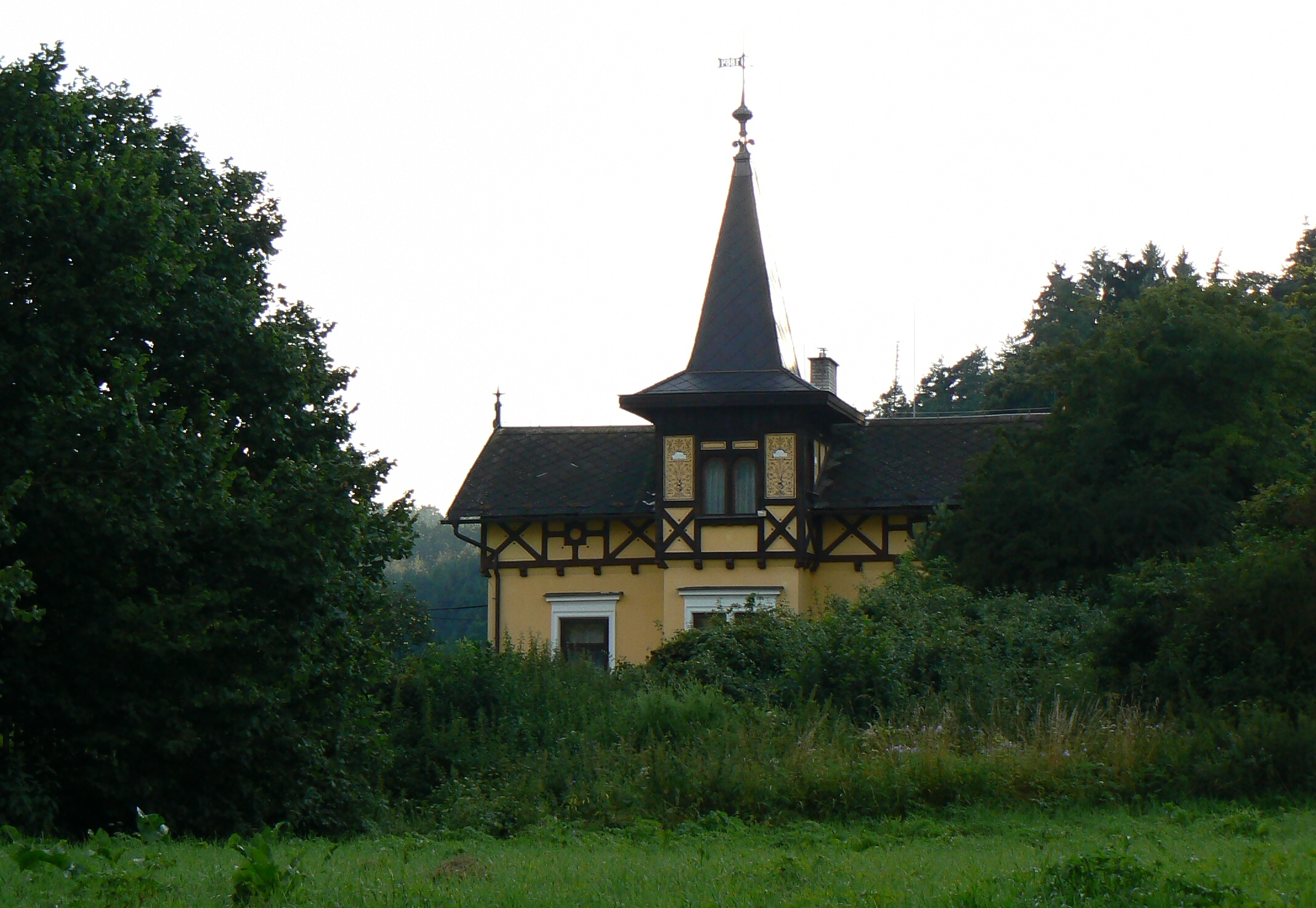 Zakšín in Česká Lípa District